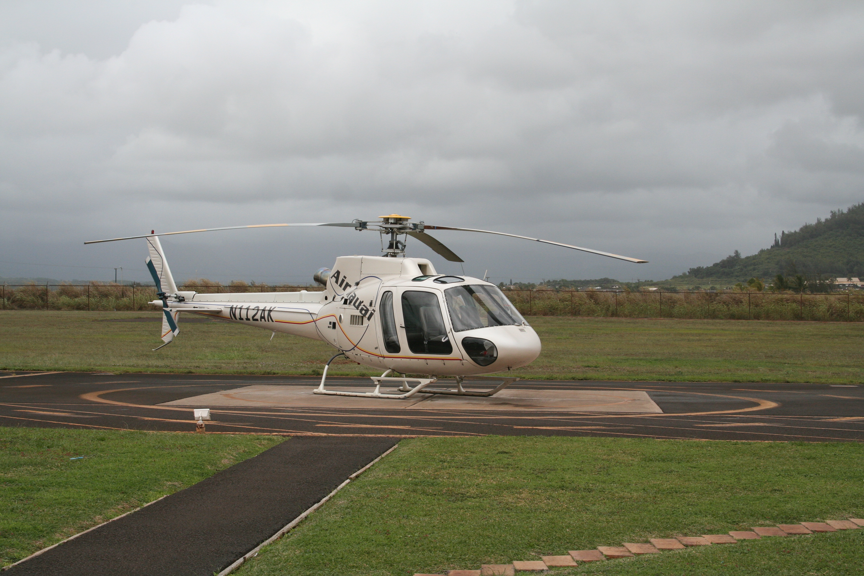 Air Kauai helicopter registered N112AK at Lihue Airport, Hawaii, USA